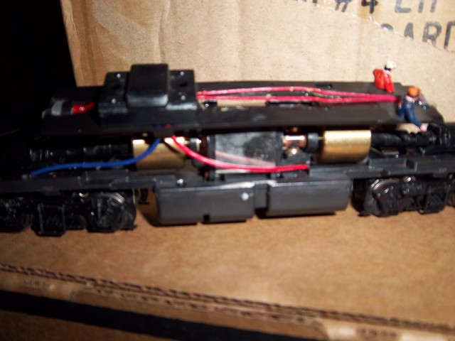 A picture, i took, showing an early drive train of a proto 2000 BL2 note the box at the back for the wiring.